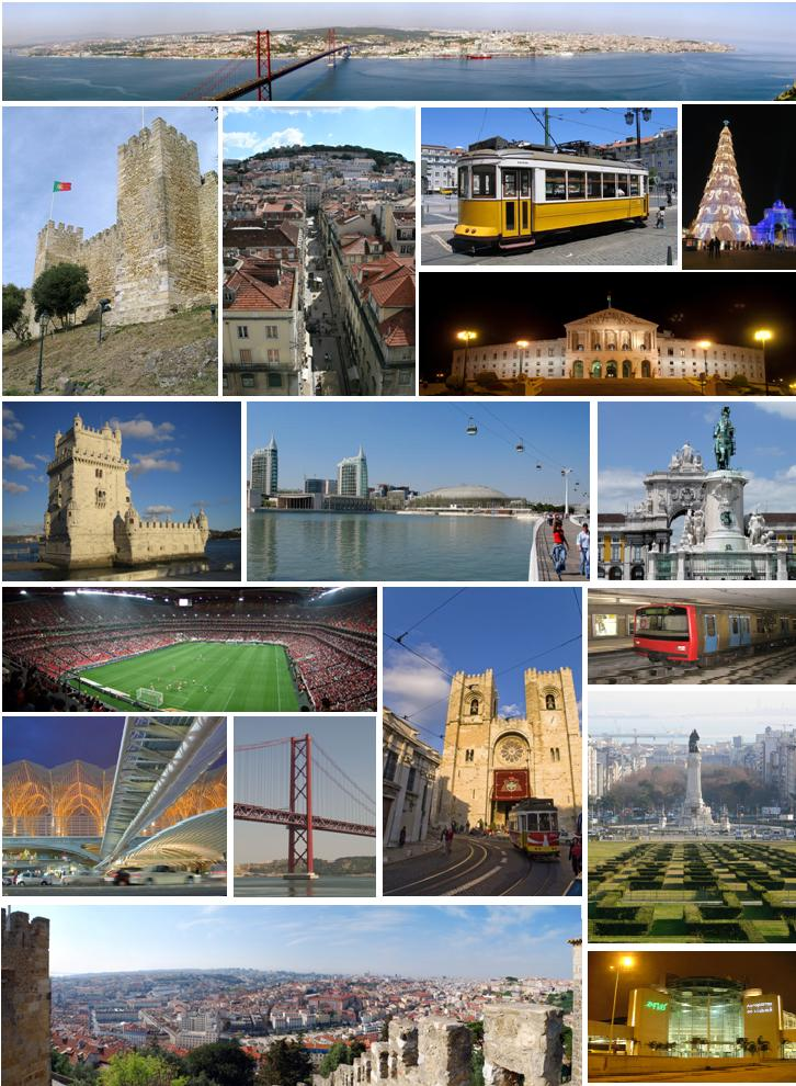 Set of images of the Lisbon City, Portugal. All the images are free and have a good resolution. This is a good compilation of important and notable landmarks in the portuguese capital city.